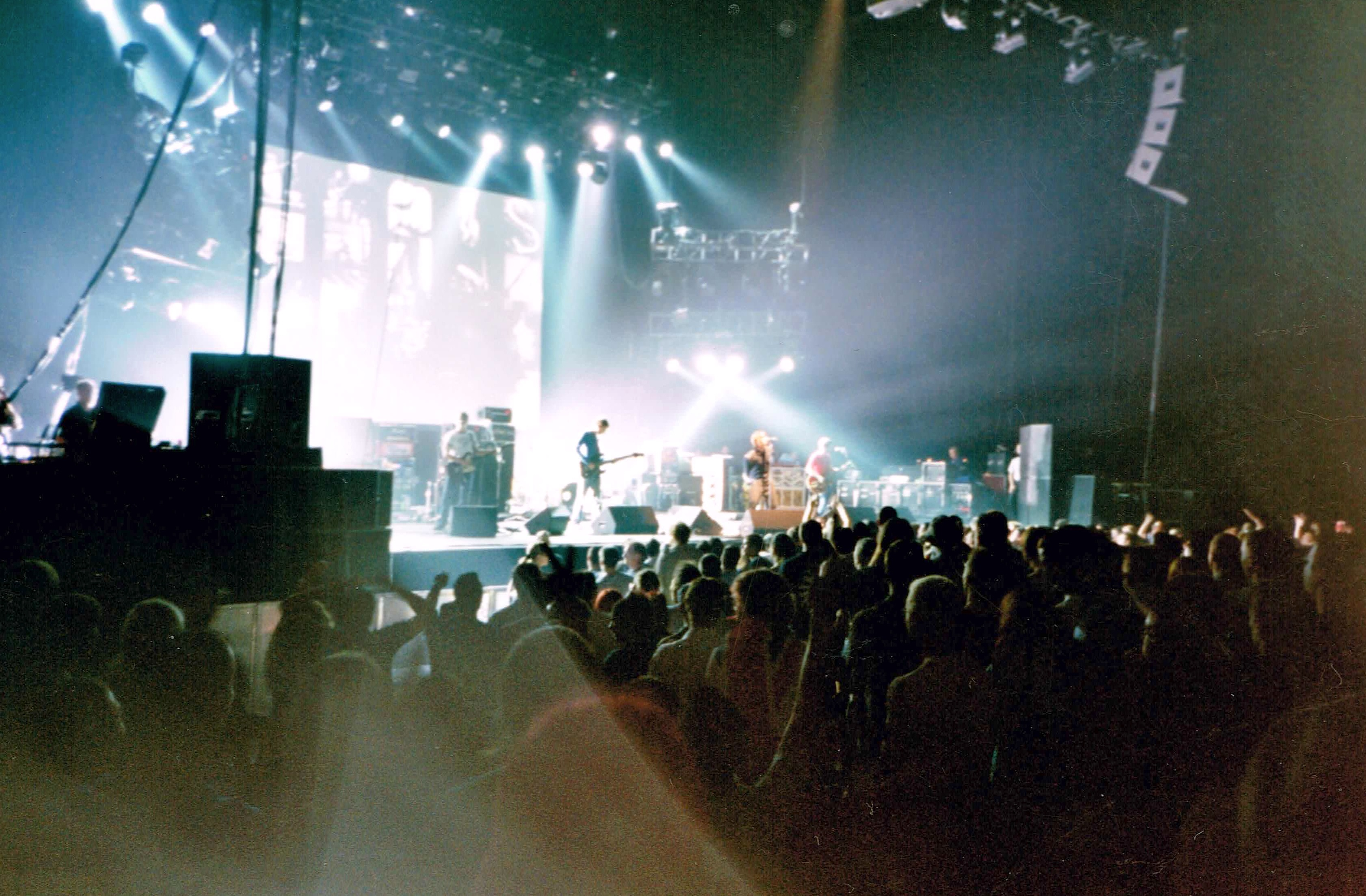 Oasis performing live in Montreal, Canada in 2002. Provided here for historical purposes.